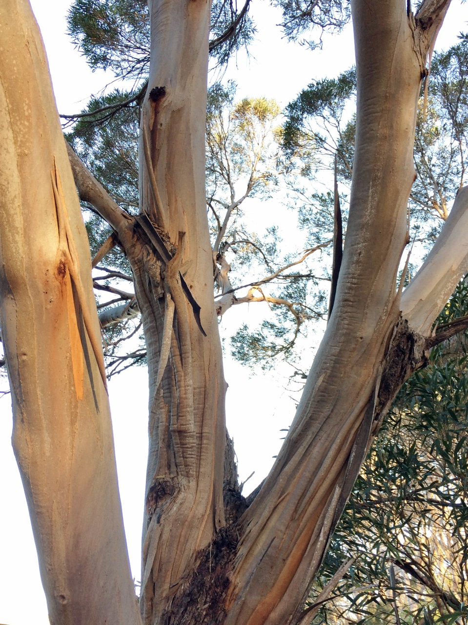 Upper branch bark of eucalyptus cneorifolia (Kangaroo Island narrow-leaved mallee)